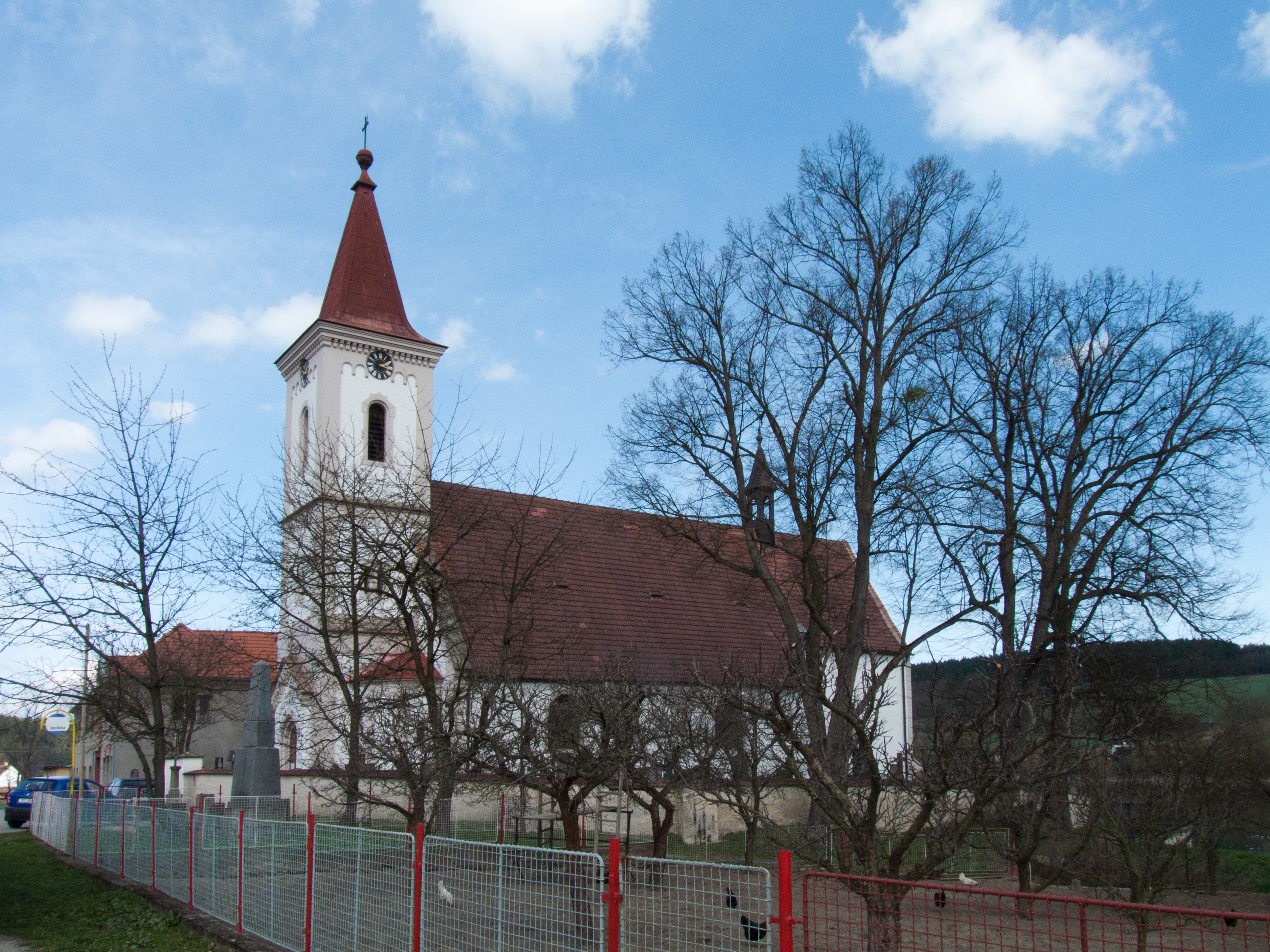 St. George Church in the village of Purkarec, České Budějovice District, Czech Republic